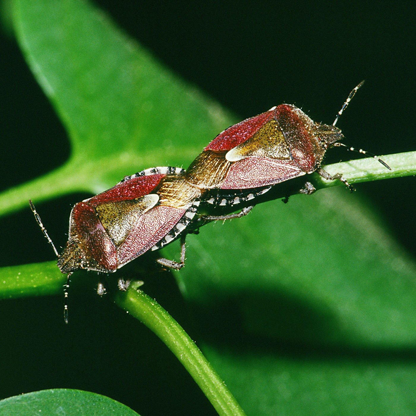 Sloe Bug (Dolycoris baccarum)